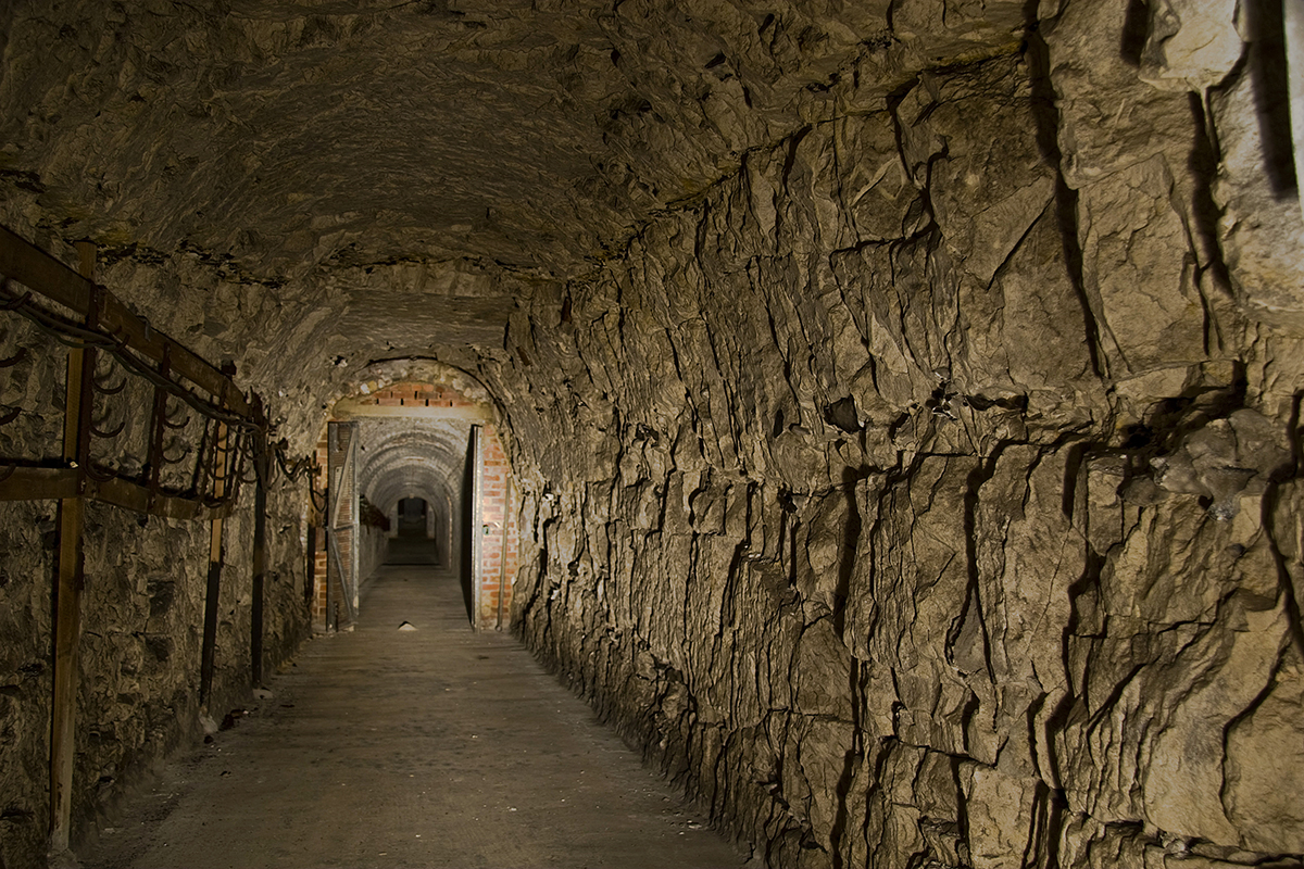 FORT SOUTHWICK Wikidata has entry Q5472070 with data related to this building.